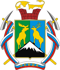 Revda (Murmansk oblast), coat of arms (1992)